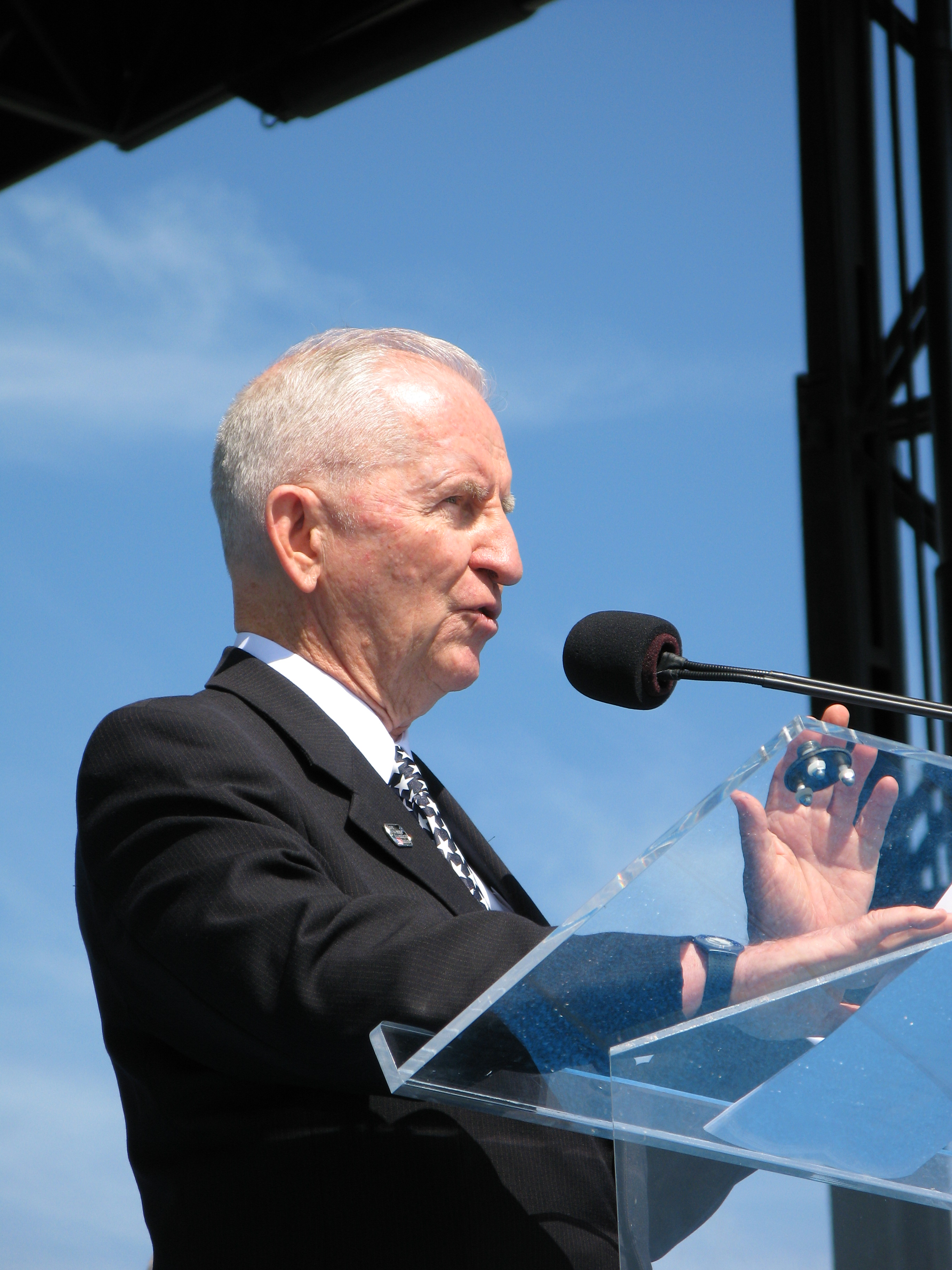 Texas entrepreneur Ross Perot, a former Navy officer and supporter of the White House Commission on Remembrance, addresses the audience at the “A Time of Remembrance” ceremony in Washington, D.C., Sept. 20, 2008. Defense Dept. photo by Gerry J. Gilmore